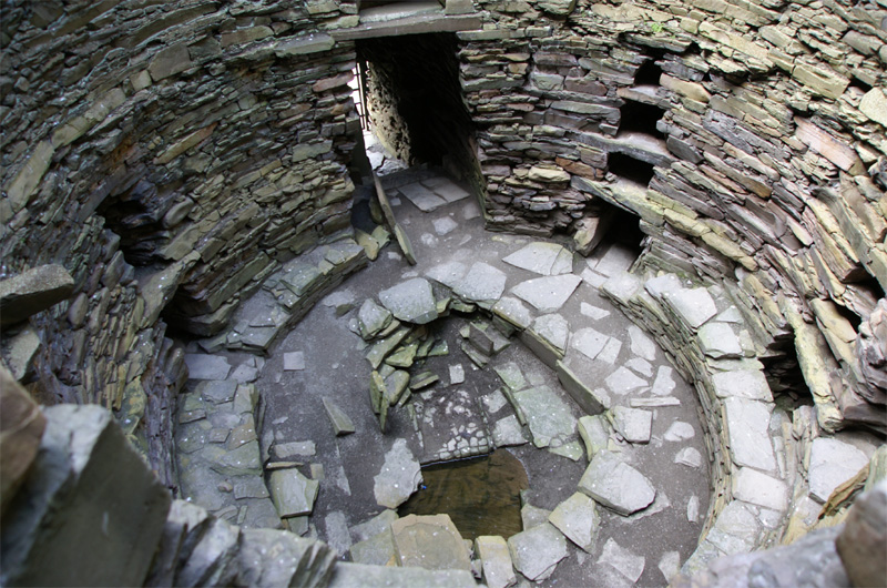 Mousa Broch, Shetland, Scotland - interior